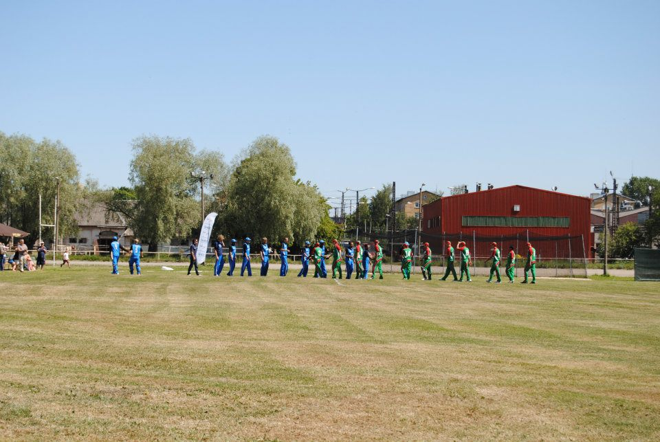 ICC Event 2012 Tallinn, Hippodroom